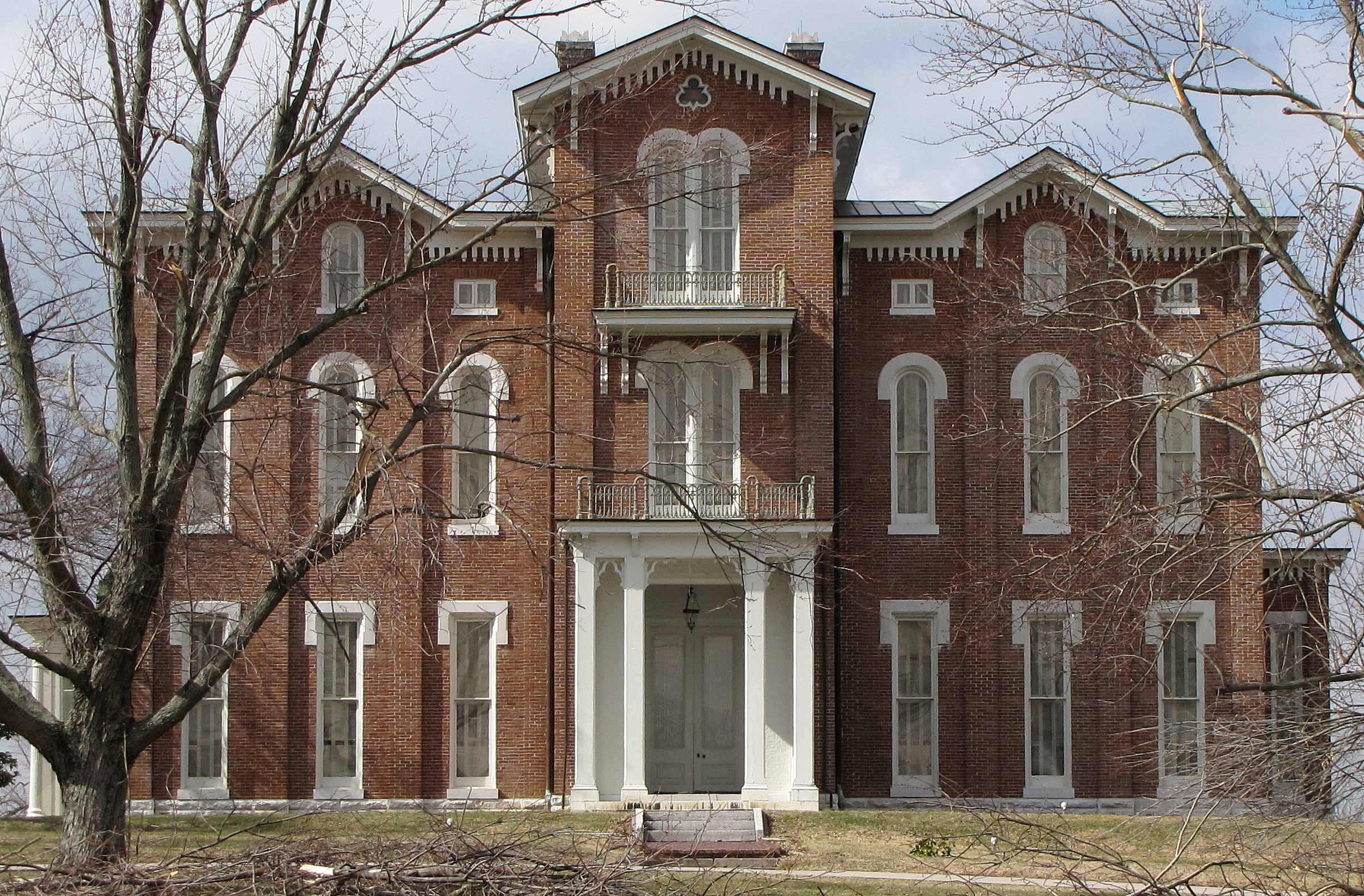 White Hall Mansion, home of Cassius M. Clay. Located in Richmond, Kentucky.